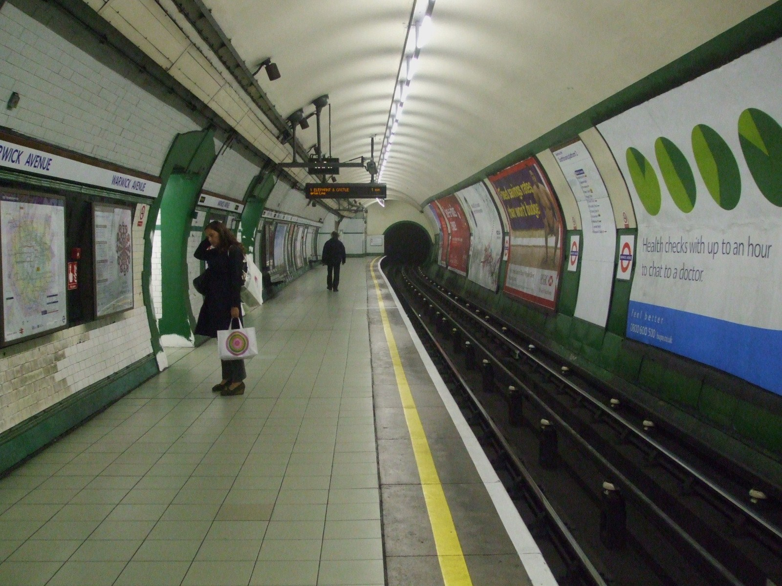 Warwick Avenue tube station southbound platform looking north